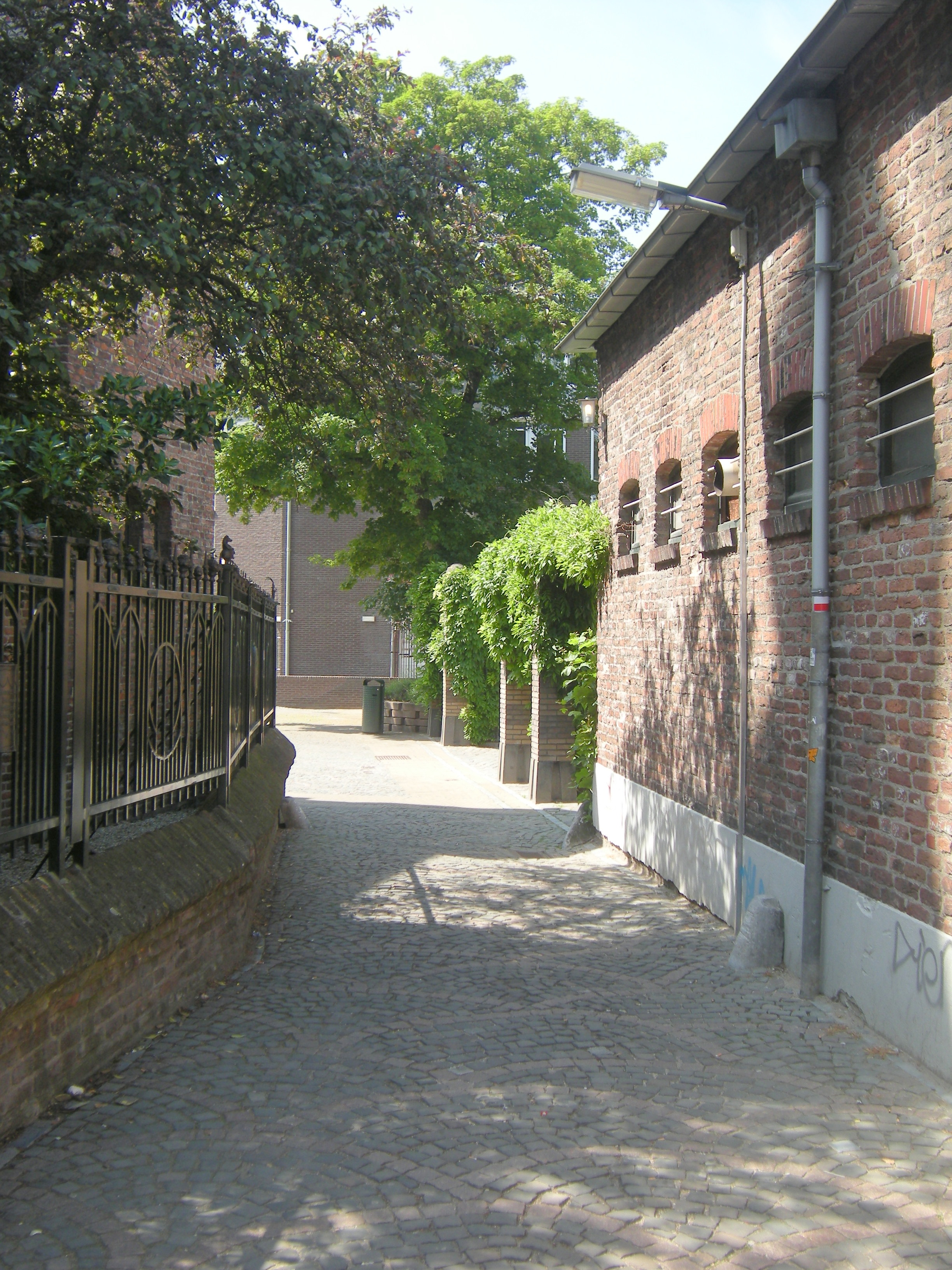 Street in Venlo city center